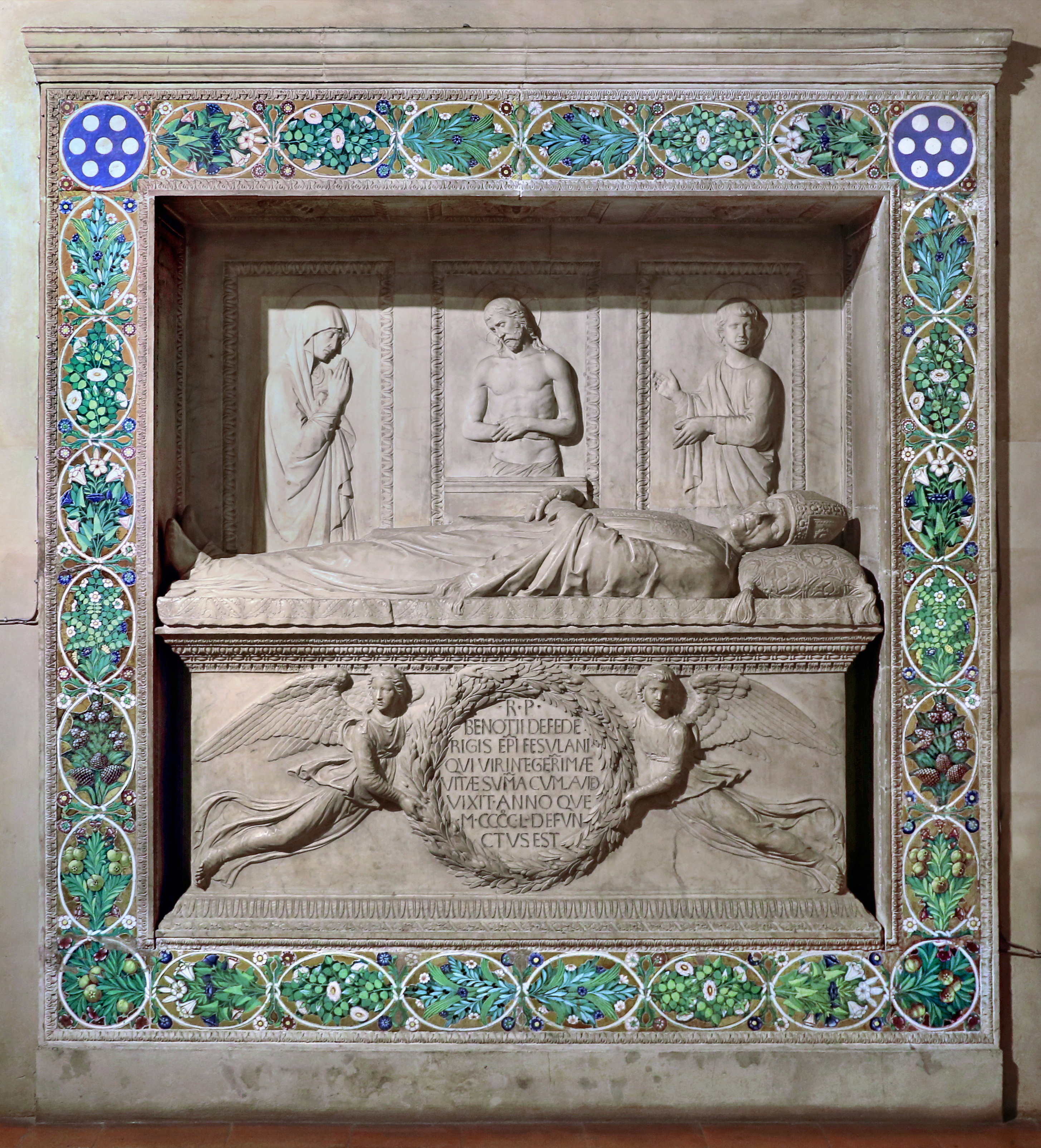 Santa Trinita (Florence) - Monument to Benozzo Federighi